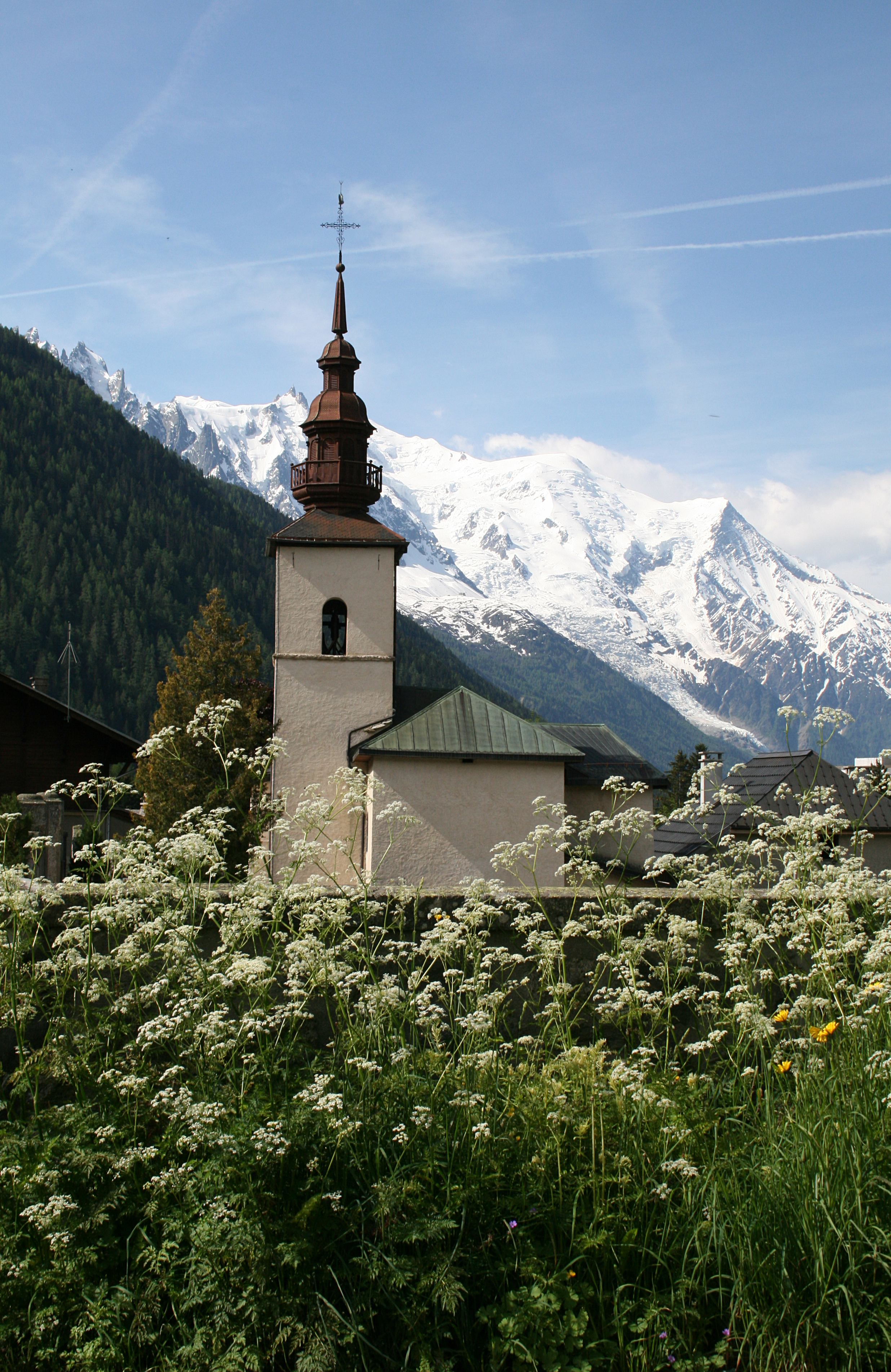 Argentière (Haute-Savoie - France), the neighborhood of the church and Mont Blanc.